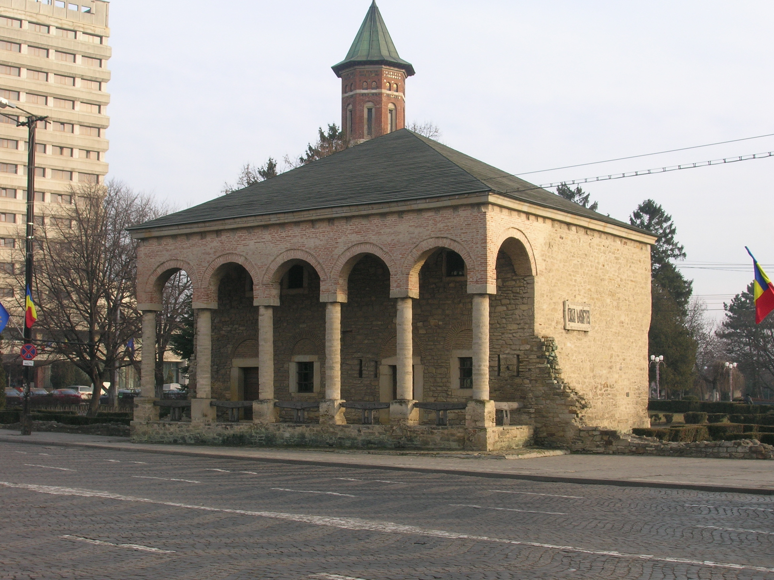 Dosoftei House. Location: Iasi - Romania